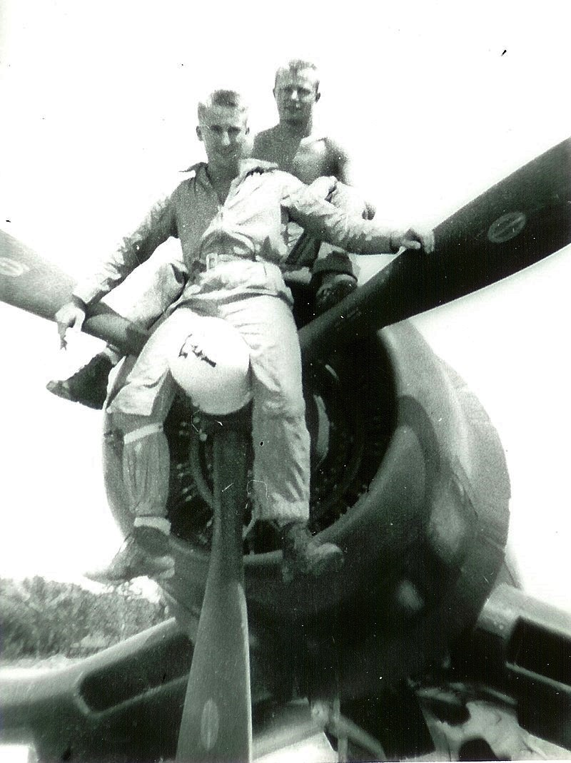 Herb Person and Don Bean as photographed by Frank B Harriman